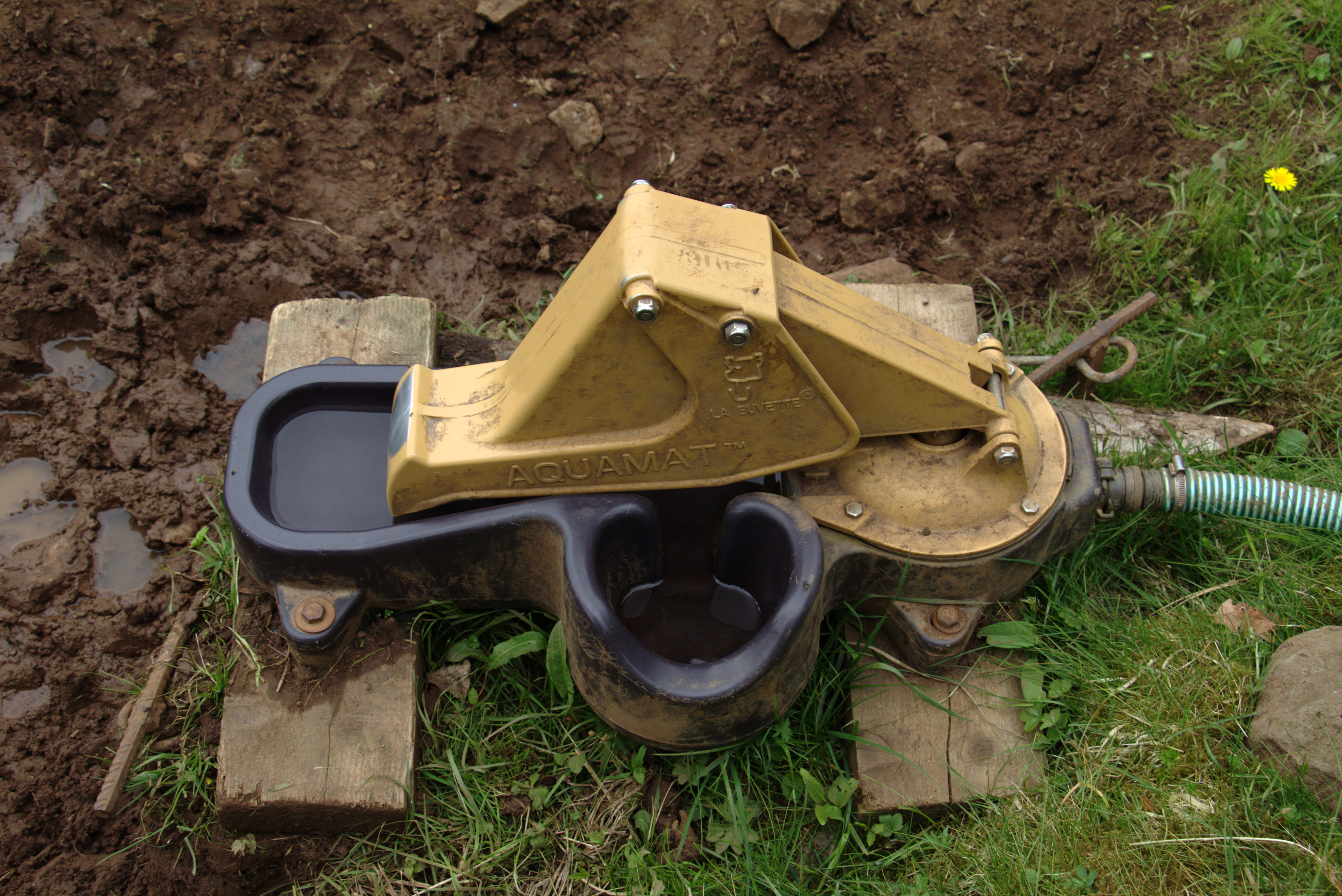 Cattle pasture water pump near Rudingshain, Schotten, Hesse, Germany